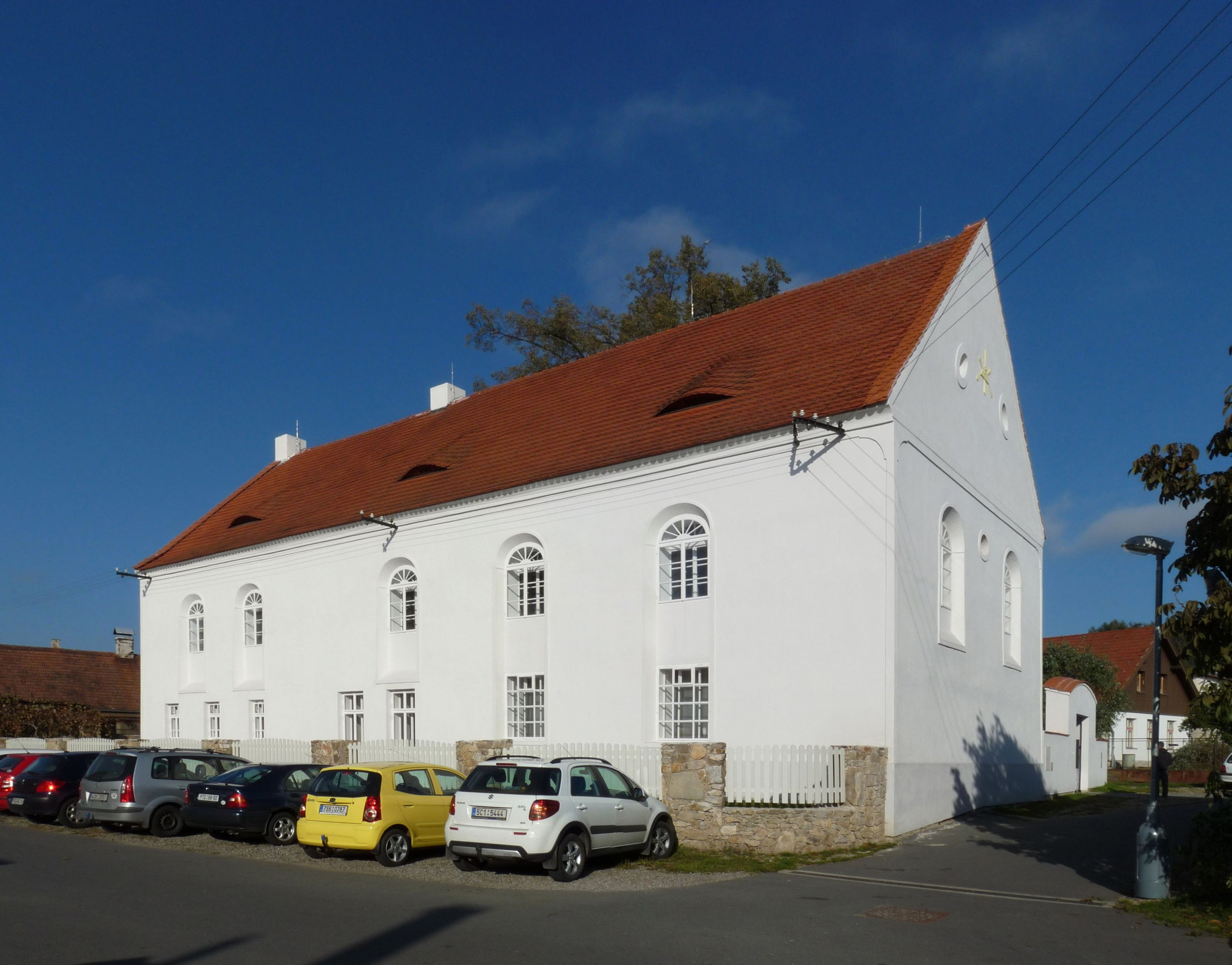 Synagogue in the municipality of Čkyně, Prachatice District, South Bohemian Region, Czech Republic.